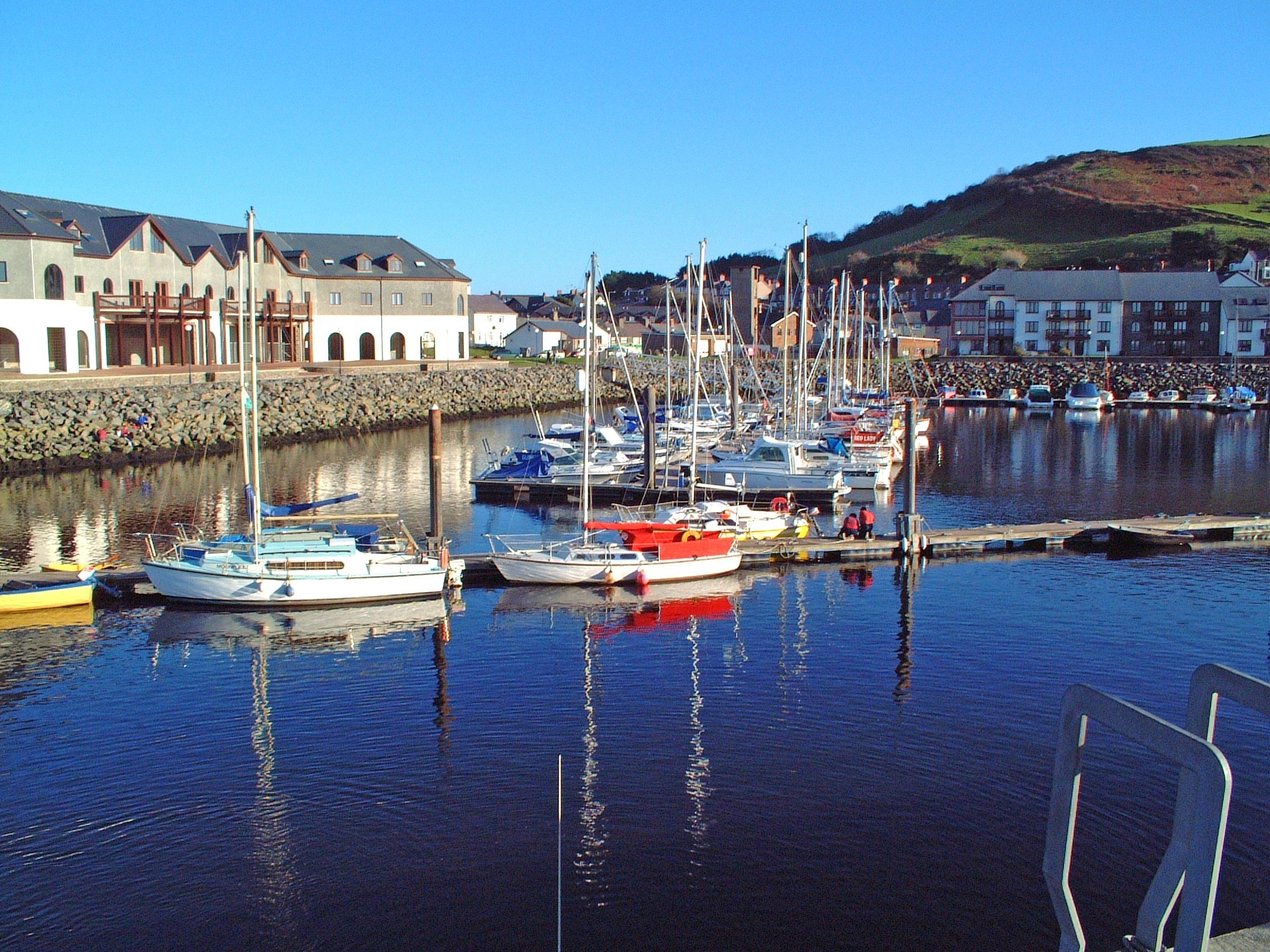 Description=Aberystwyth harbour marina taken late afternoon in late October 2001 Date=2001/10/28 Source=Own Photograph Author=Eos12